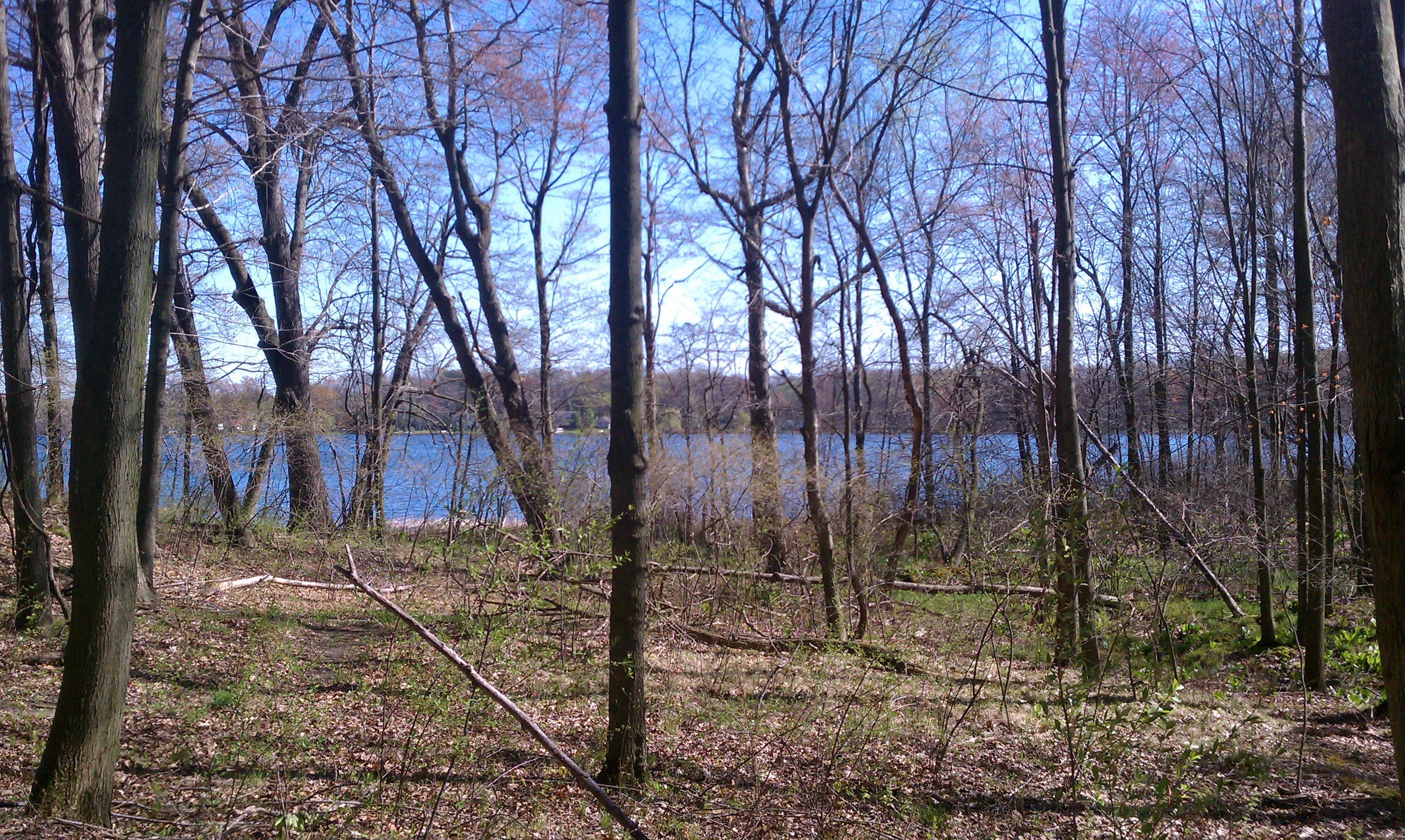 View looking south at Cedar Lake, from a trail connecting the Cedar Lake Outdoor Center to the Discovery Center area in Waterloo State Recreation Area, Michigan.